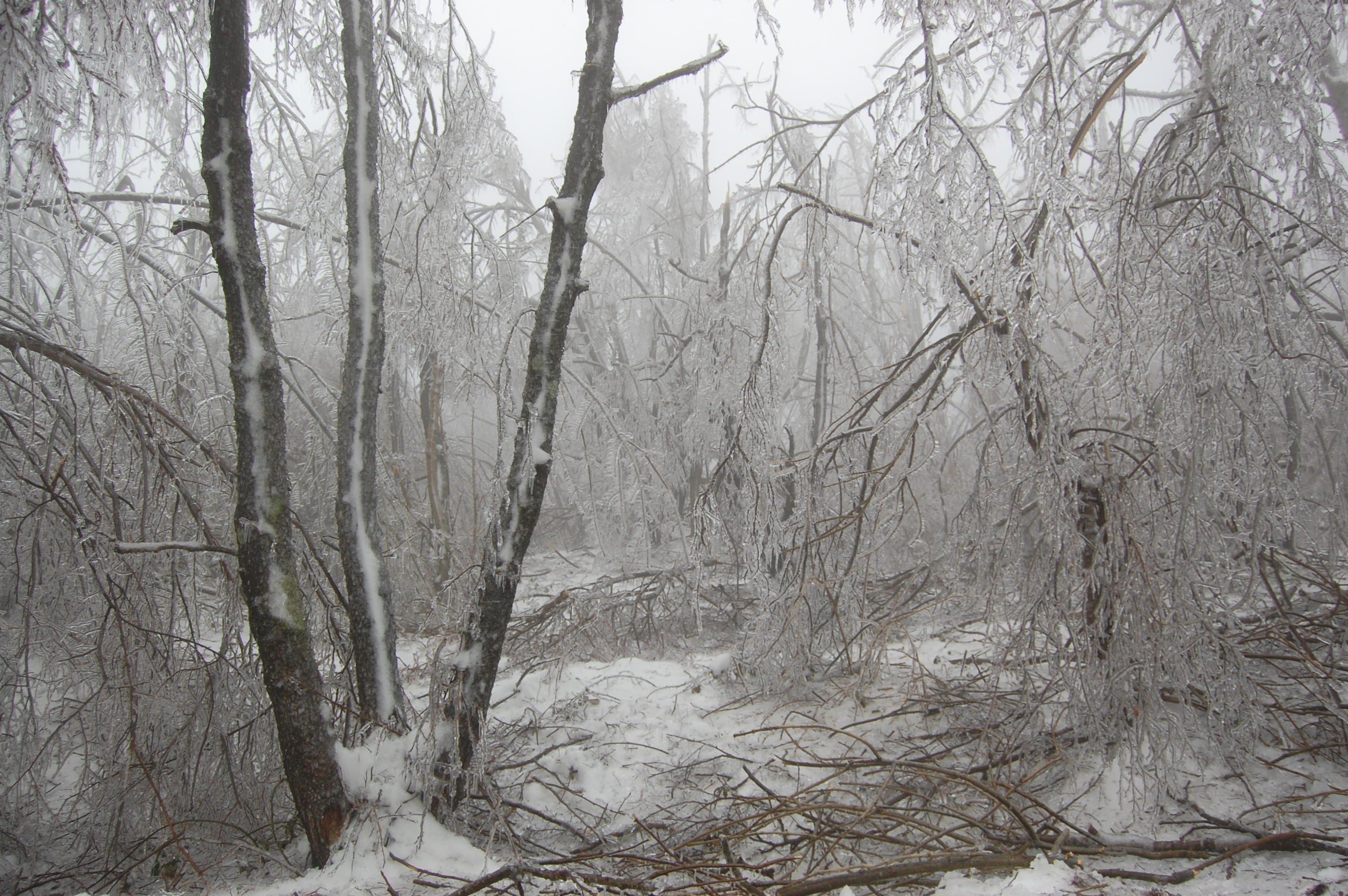 Glaze ice near Prossenicco, Italy